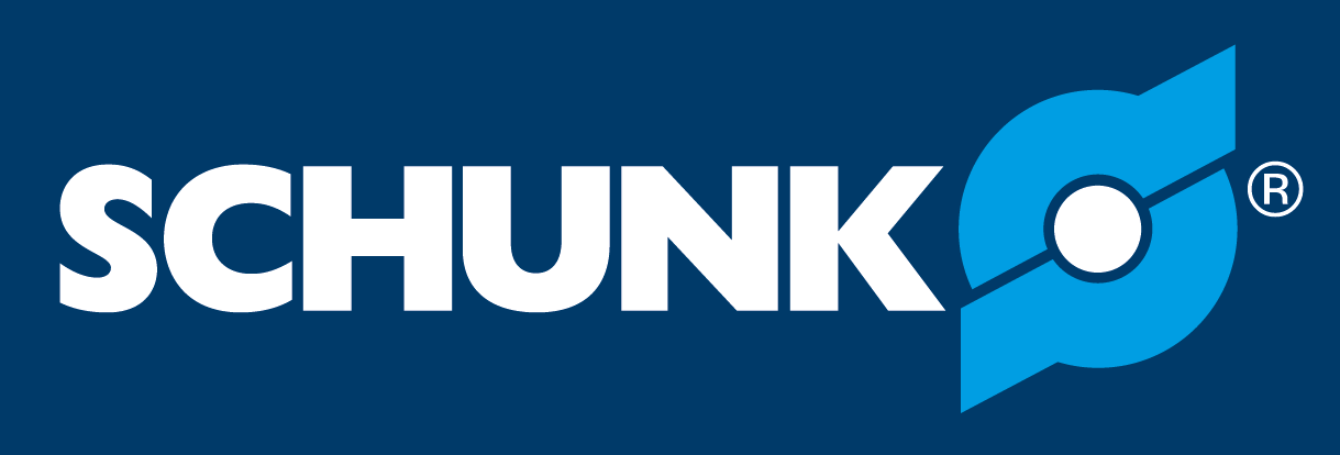 Neues Logo der SCHUNK GmbH & Co KG im Jahr 2012